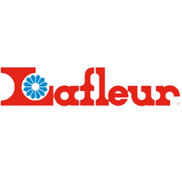 Logo of the Lafleur brand in 1978.